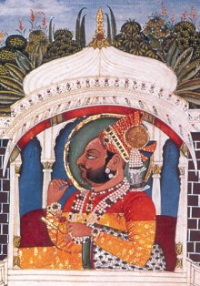 Bhim Singh of Marwar